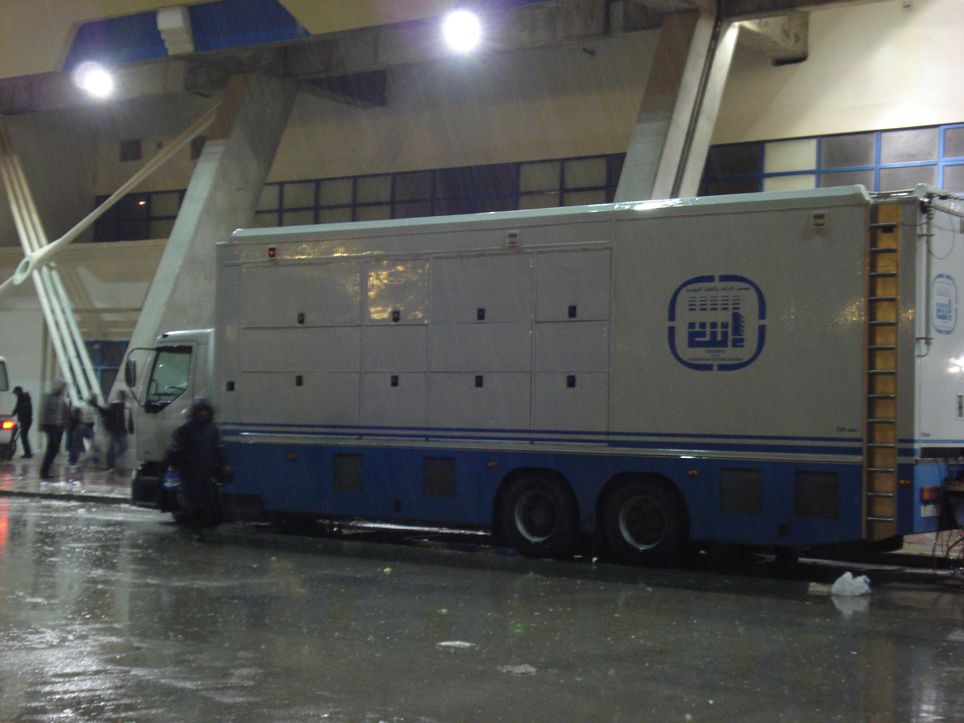 Outside broadcasting van of the ERTT in Radès stadium (during the football match Tunisia-the Netherlands), Tunis, Tunisia